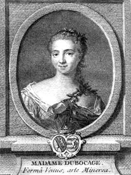 Portrait of Anne-Marie Du Boccage (1710-1802) adorning her Colombiade: Forma Venus, arte Minerva